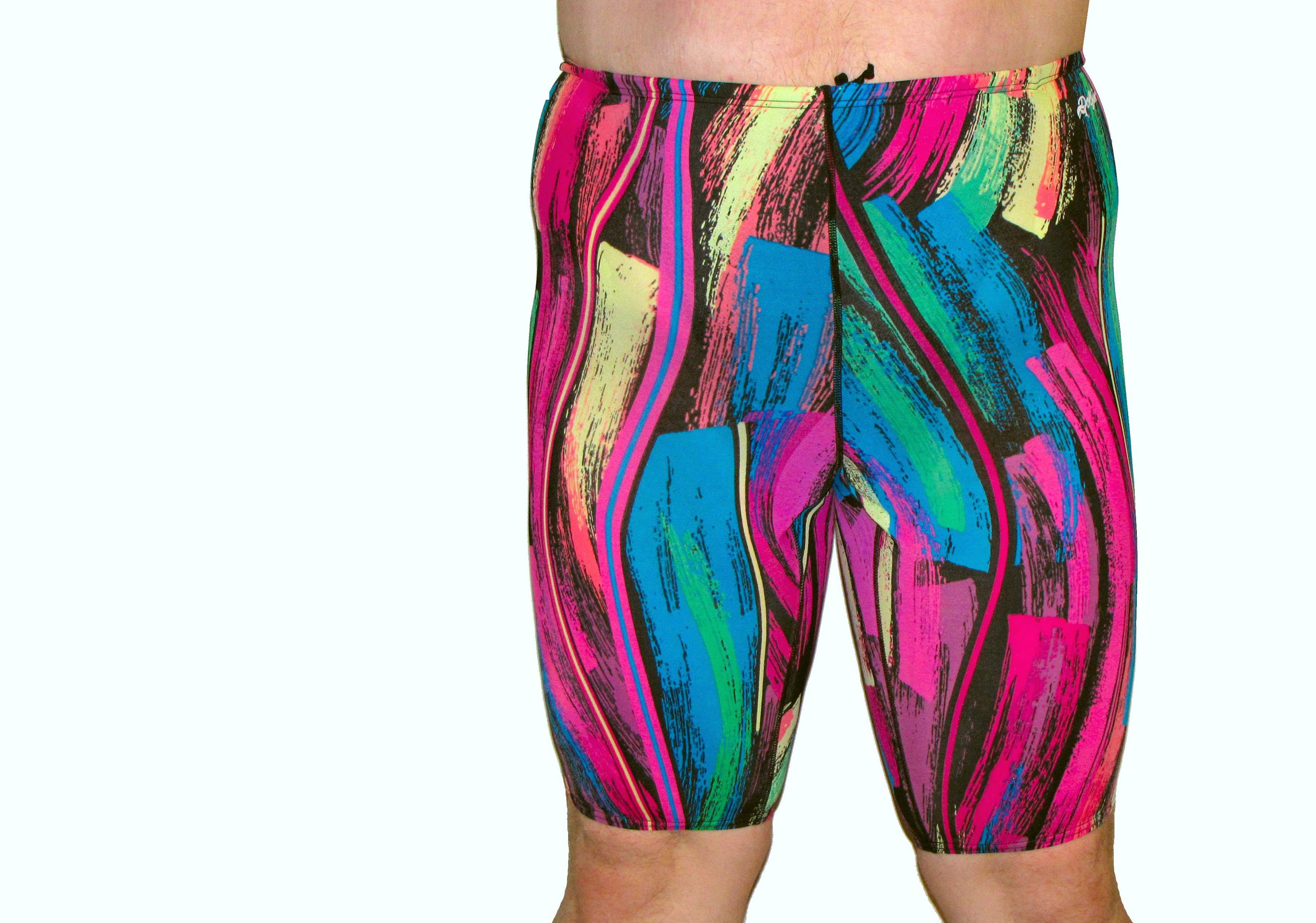 A Dolfin "Winners" style swim jammer.